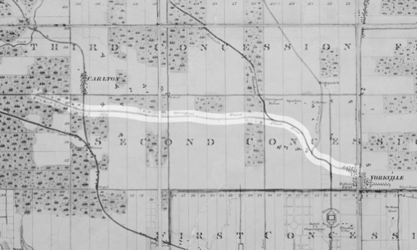 Davenport_Road_in_1851.